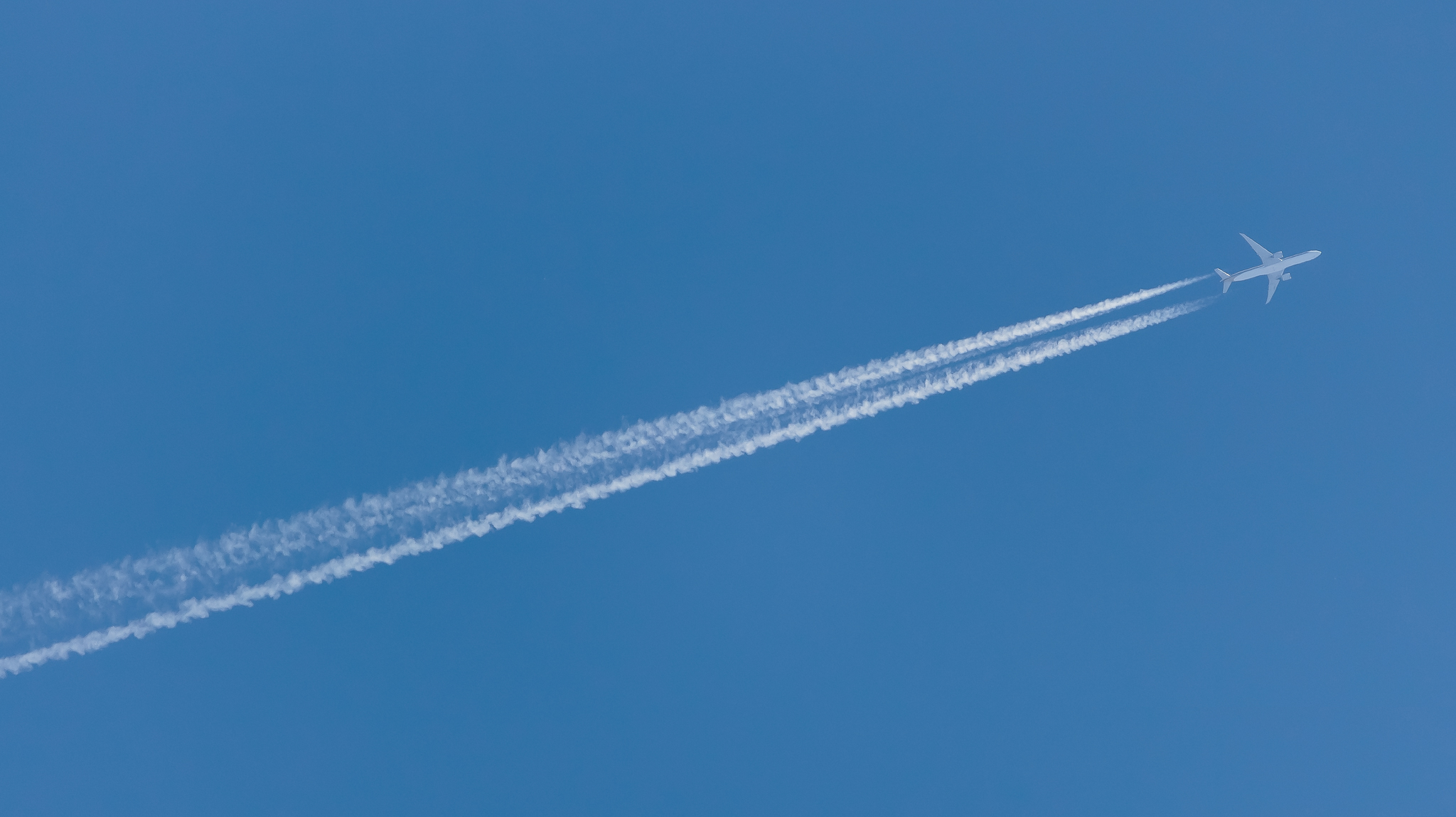 Boeing 777